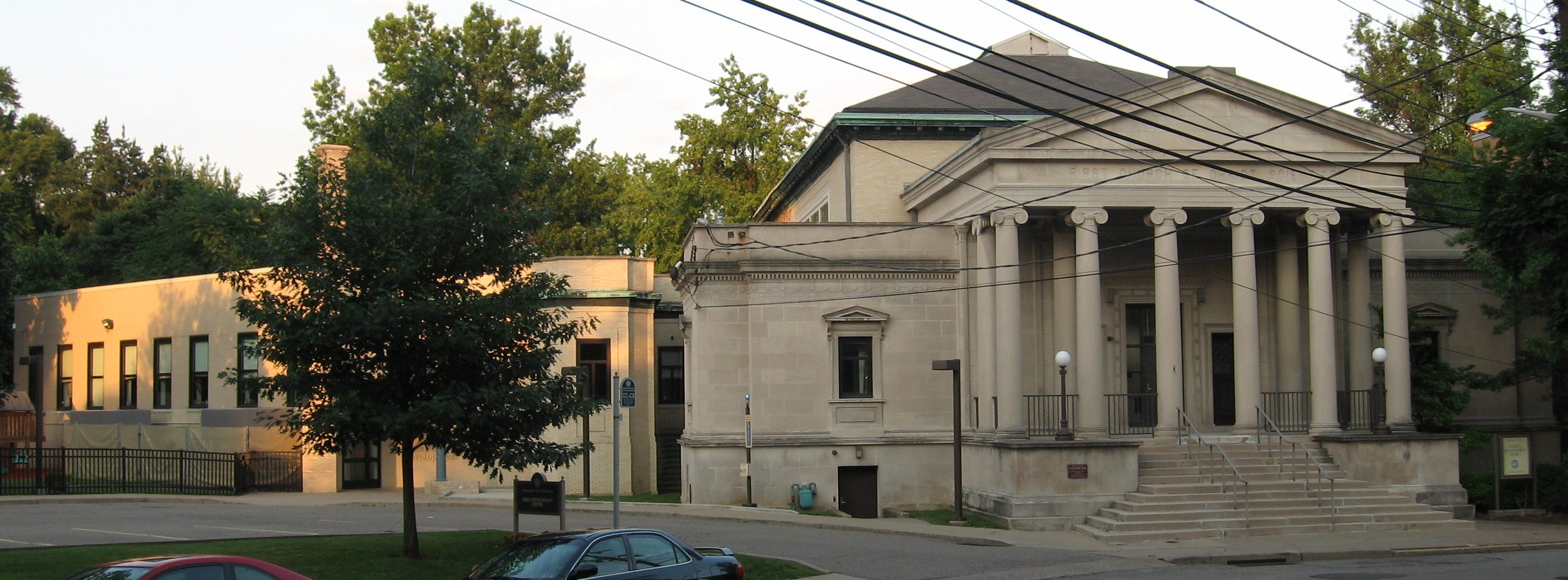 University Child Development Center at the University of Pittsburgh. Image includes the former Church of Jesus Christ, Scientist church and the new addition. 40°26′53.6″N 79°56′42.9″W / 40.448222°N 79.94525°W